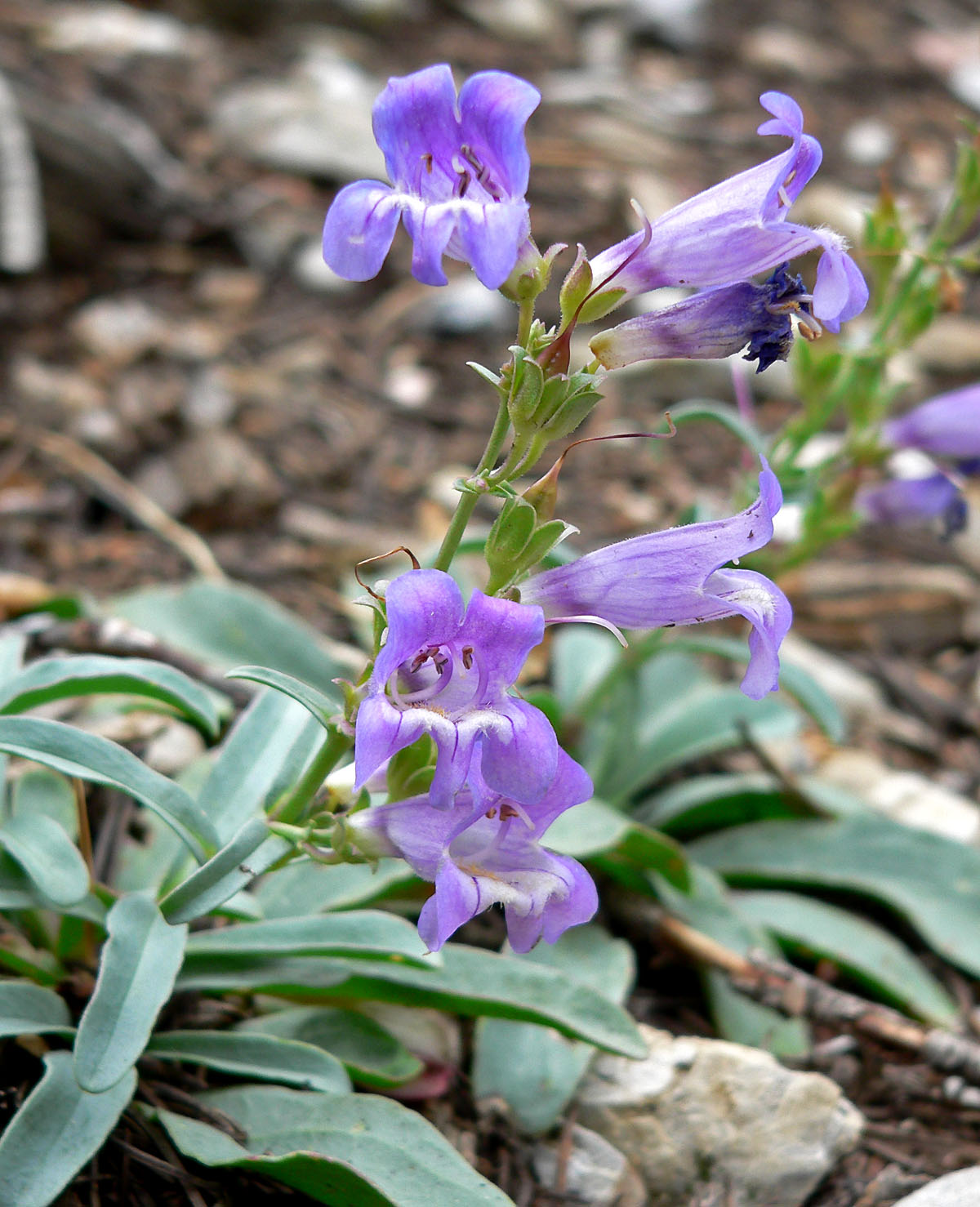 Penstemon leiophyllus var. keckii on the North Loop trail east of Mummy Mountain, Spring Mountains, southern Nevada (elev. about 3000 m)